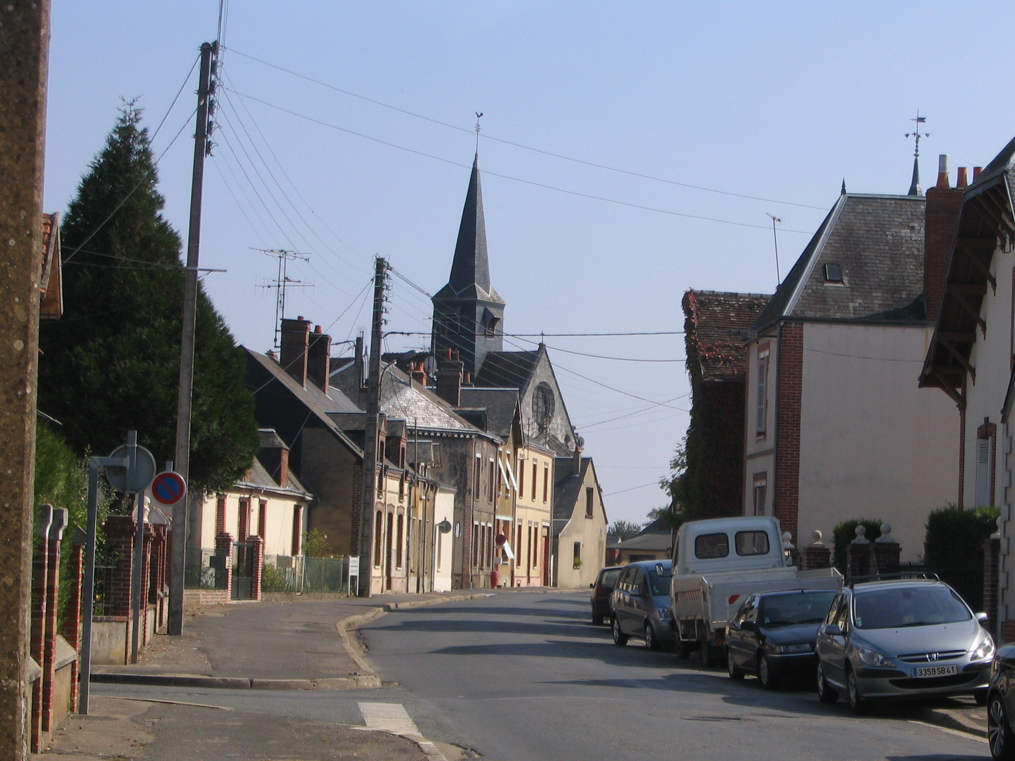 One of the main streets of Droué, Loir-et-Cher, France.